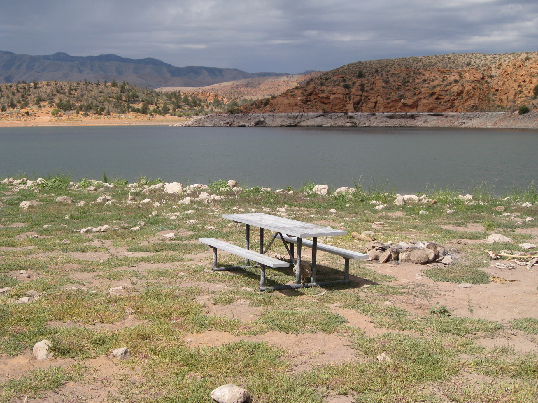 picnic table gunlock state park utah